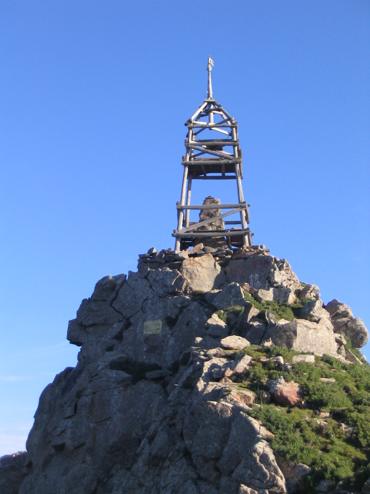 The helan mountain peaks,which Elevation 3555 meters